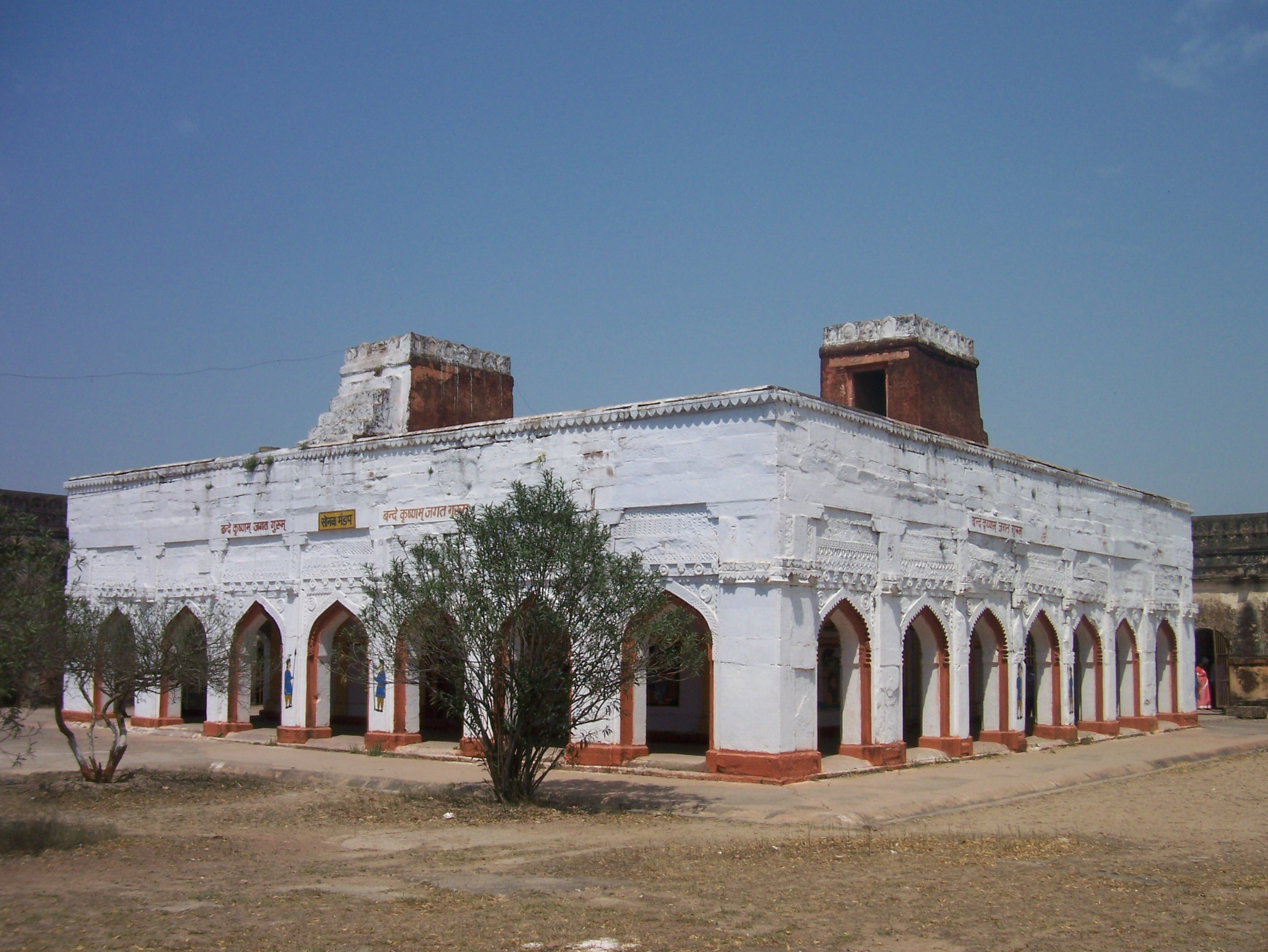 The Alha-Khand poem states that this place--the Sonva Mandap in the Chunar fort--is the location where according to a popular belief, Alha married Sonva.